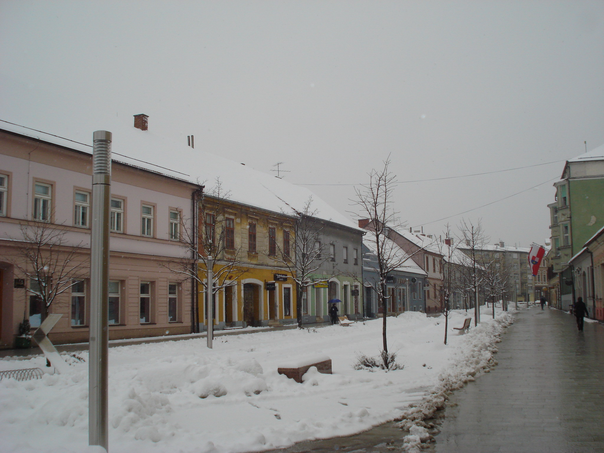 The Town of Čakovec, Croatia, in winter - King Tomislav Street, south side